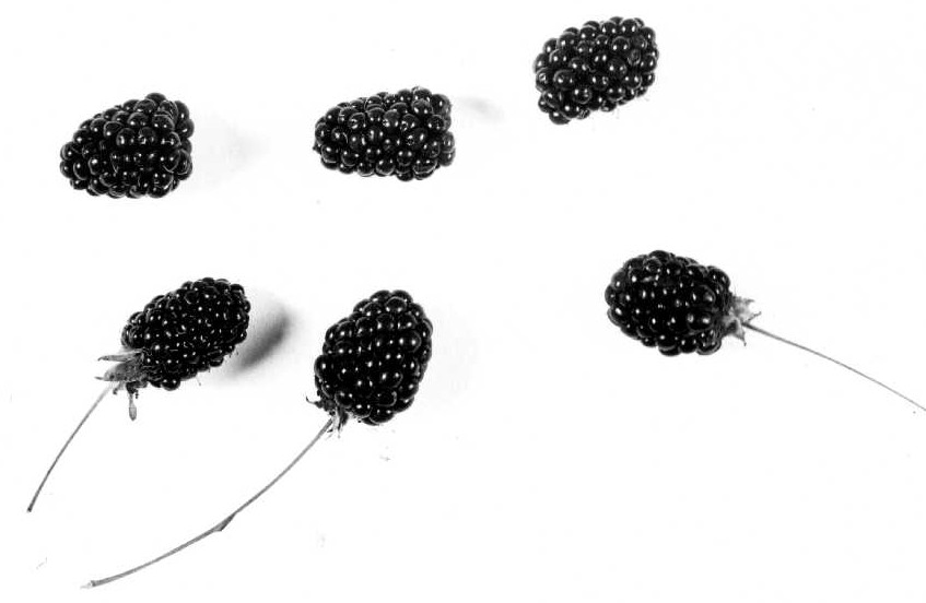 Rubus canadensis (smooth blackberry) Courtesy of USDA Forest Service.